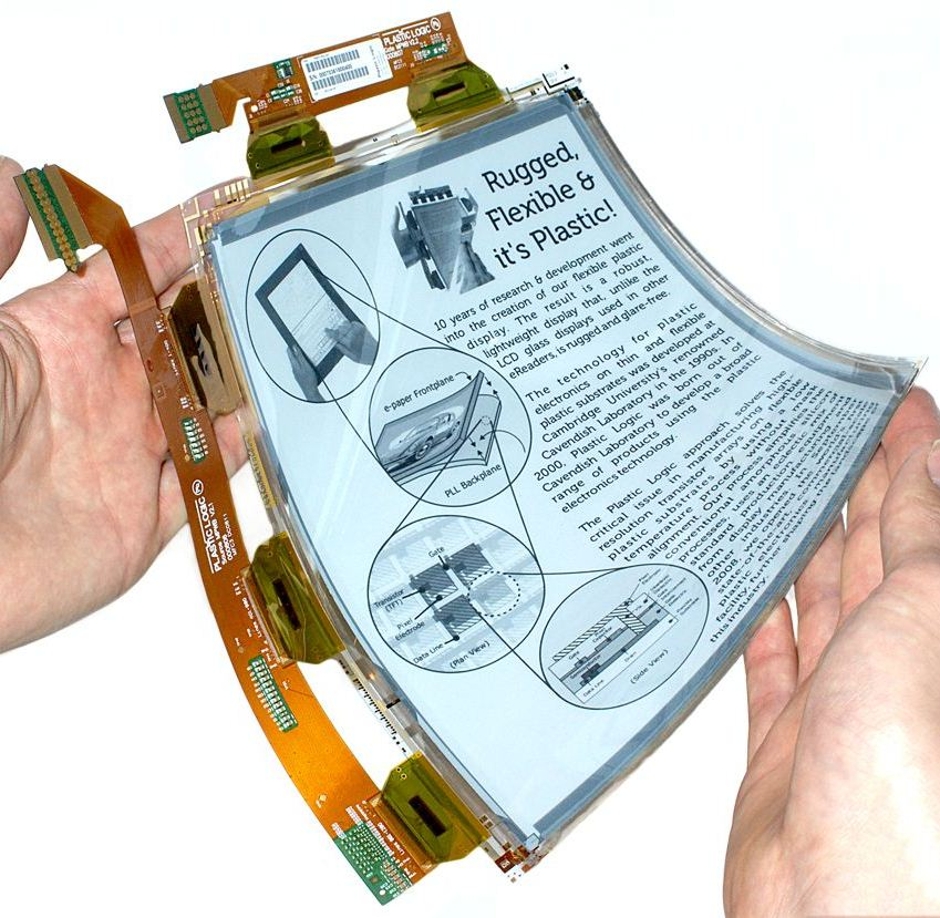 Flexible plastic display made by Plastic Logic. License on Flickr (2012-09-14): CC-BY-SA-2.0